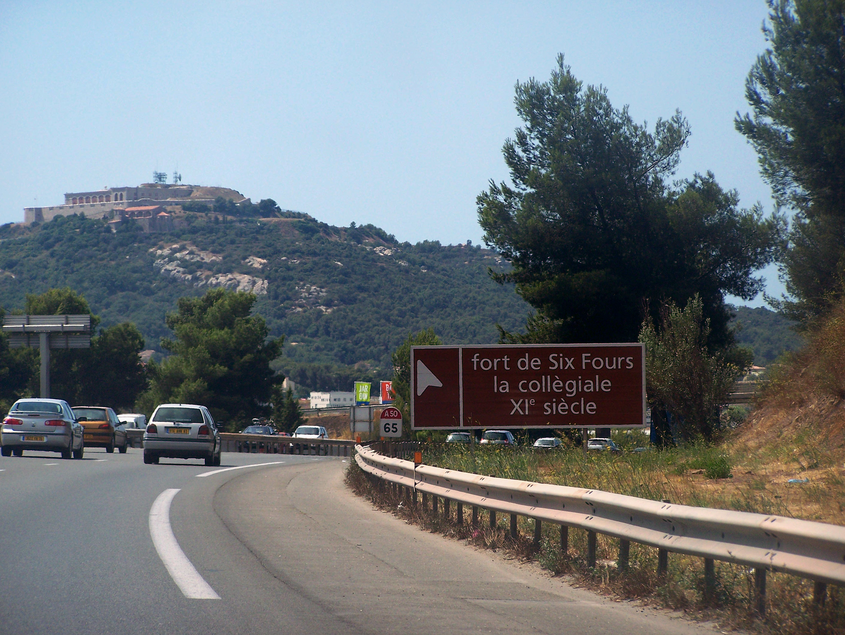 Sight of the A50 French motorway in the direction of Marseille, here near Six-Fours-les-Plages and its collégiale (at the top of the hill), near Toulon, in Var.